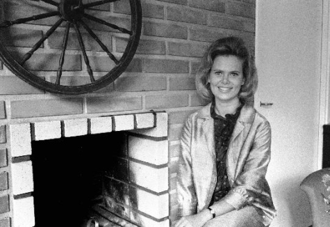 Photograph of the Finnish television journalist Tuula Rosenqvist, formerly Ignatius, née Usva (1933–2011) at her home.